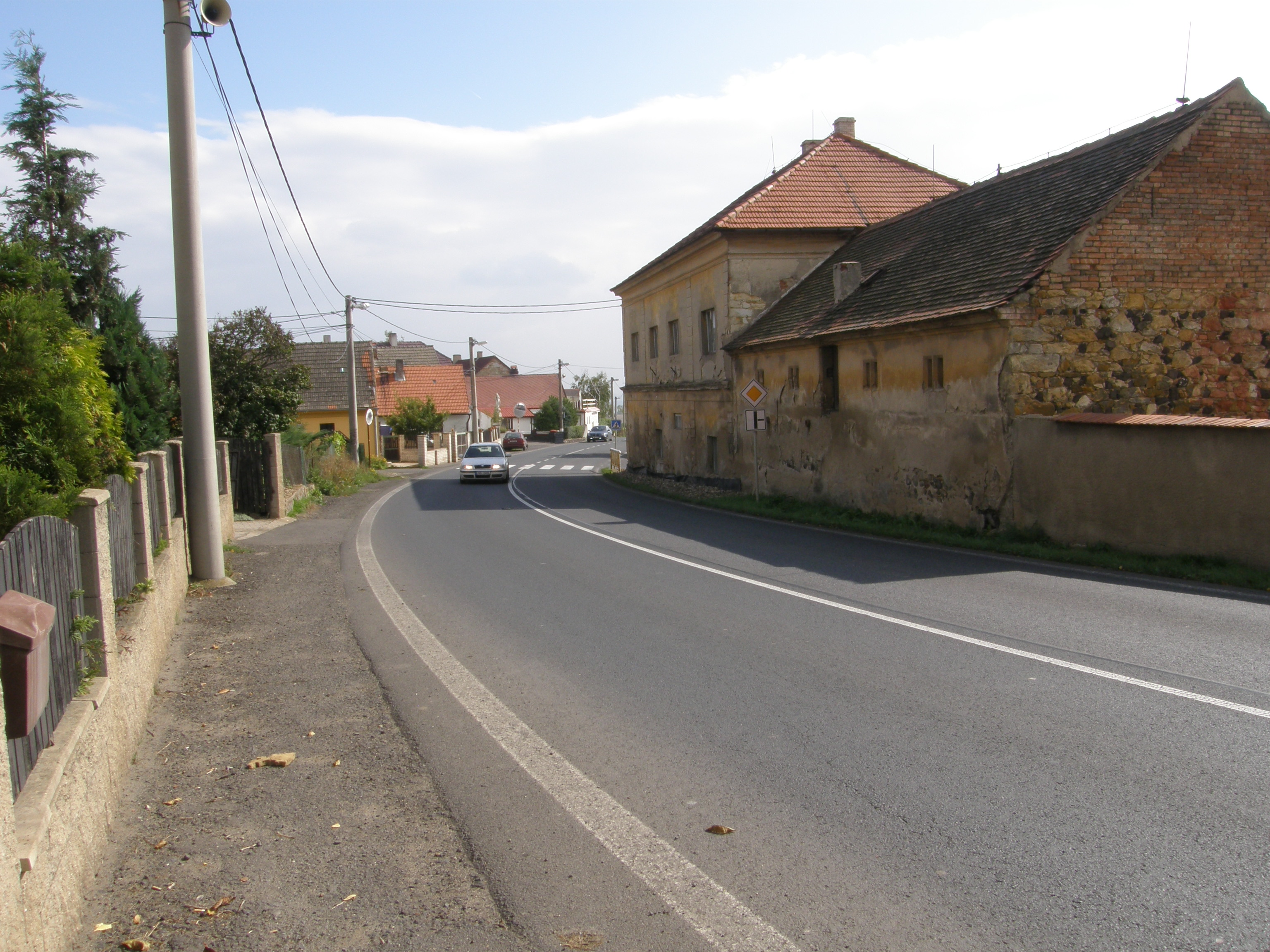 Main road going through Želkovice